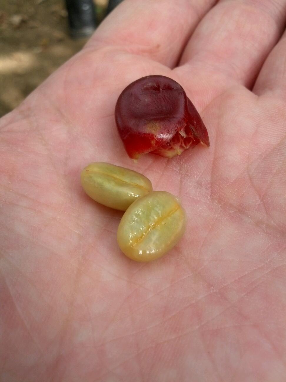 Two coffee beans from the coffee berry.